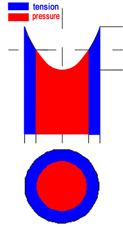 Ludwig Resch